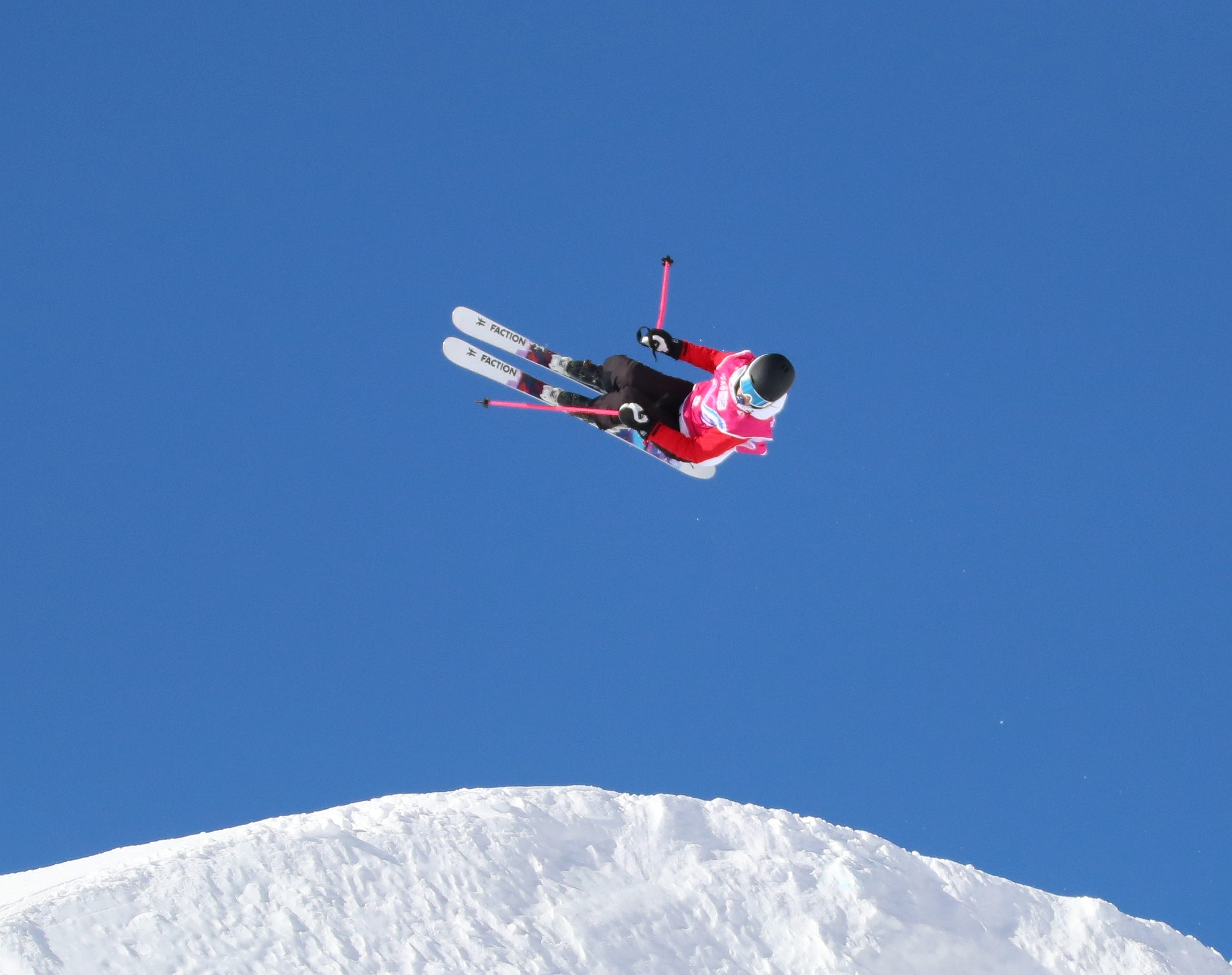 2nd final run of Freestyle skiing – Women's Freestyle Slopestyle at the 2020 Winter Youth Olympics in Lausanne on 18 January 2020.